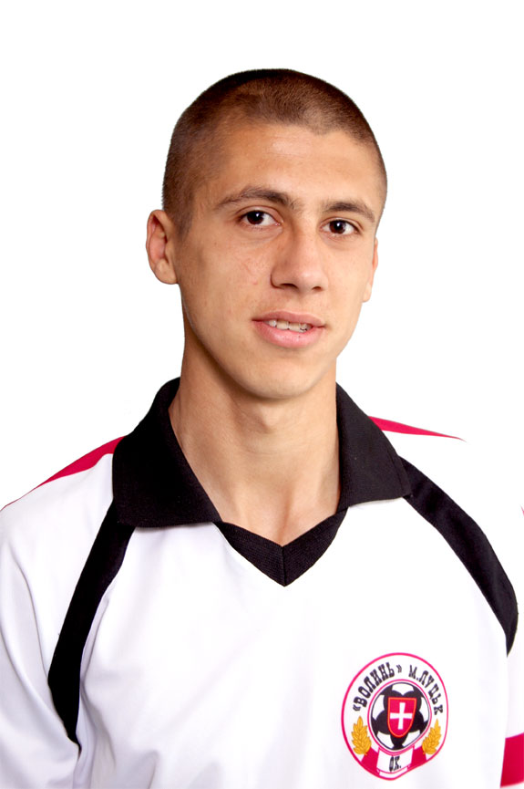 Yevhen Khacheridi, defender of FC Dynamo Kyiv